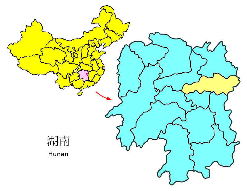 Location of Changsha Prefecture (yellow) within Hunan Province of China Map drawn in december 2007 using various sources, mainly : Hunan Province administrative regions GIS data: 1:1M, County level, 1990 Hunan Counties map from